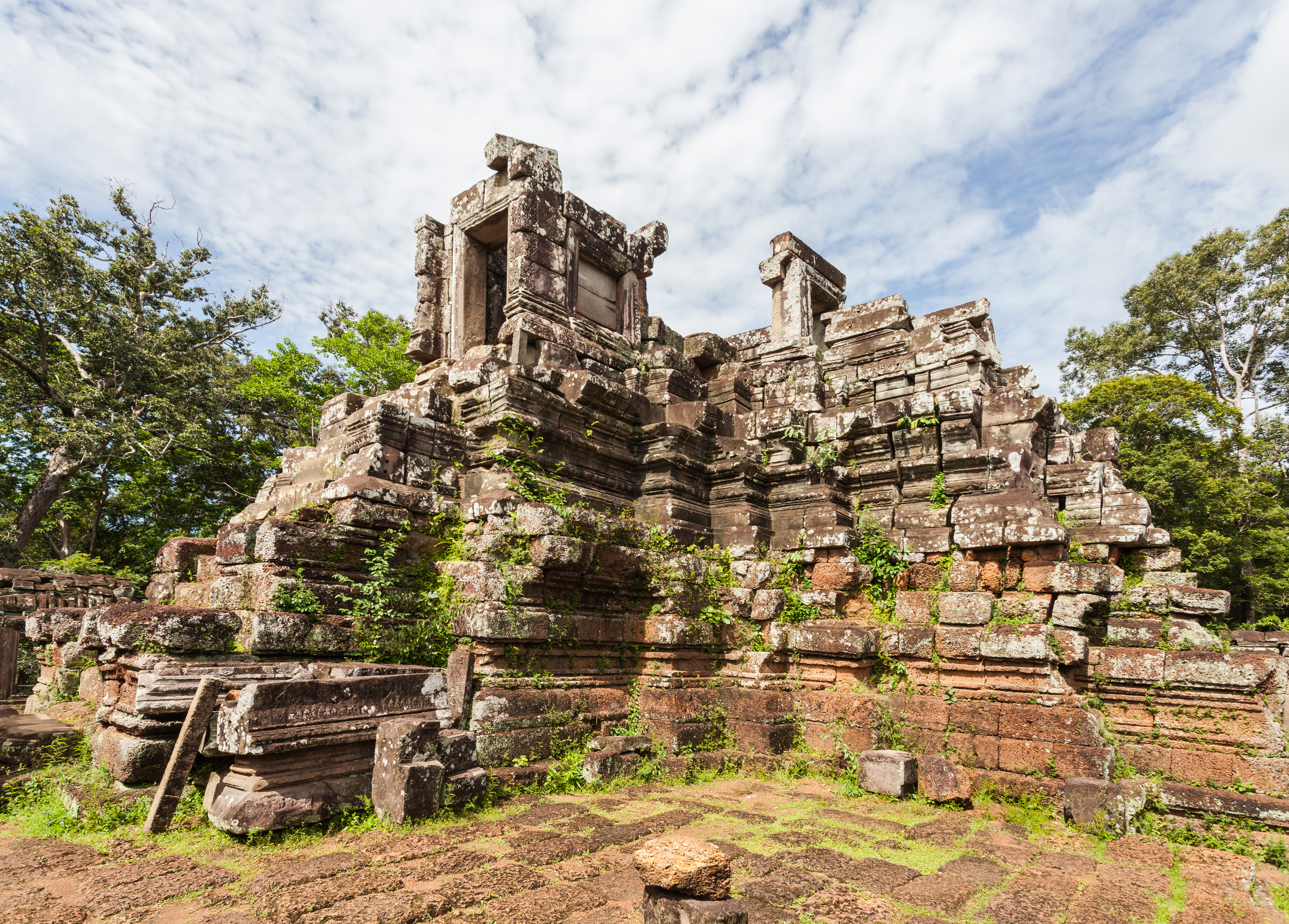 Phimeanakas, Angkor Thom, Cambodia